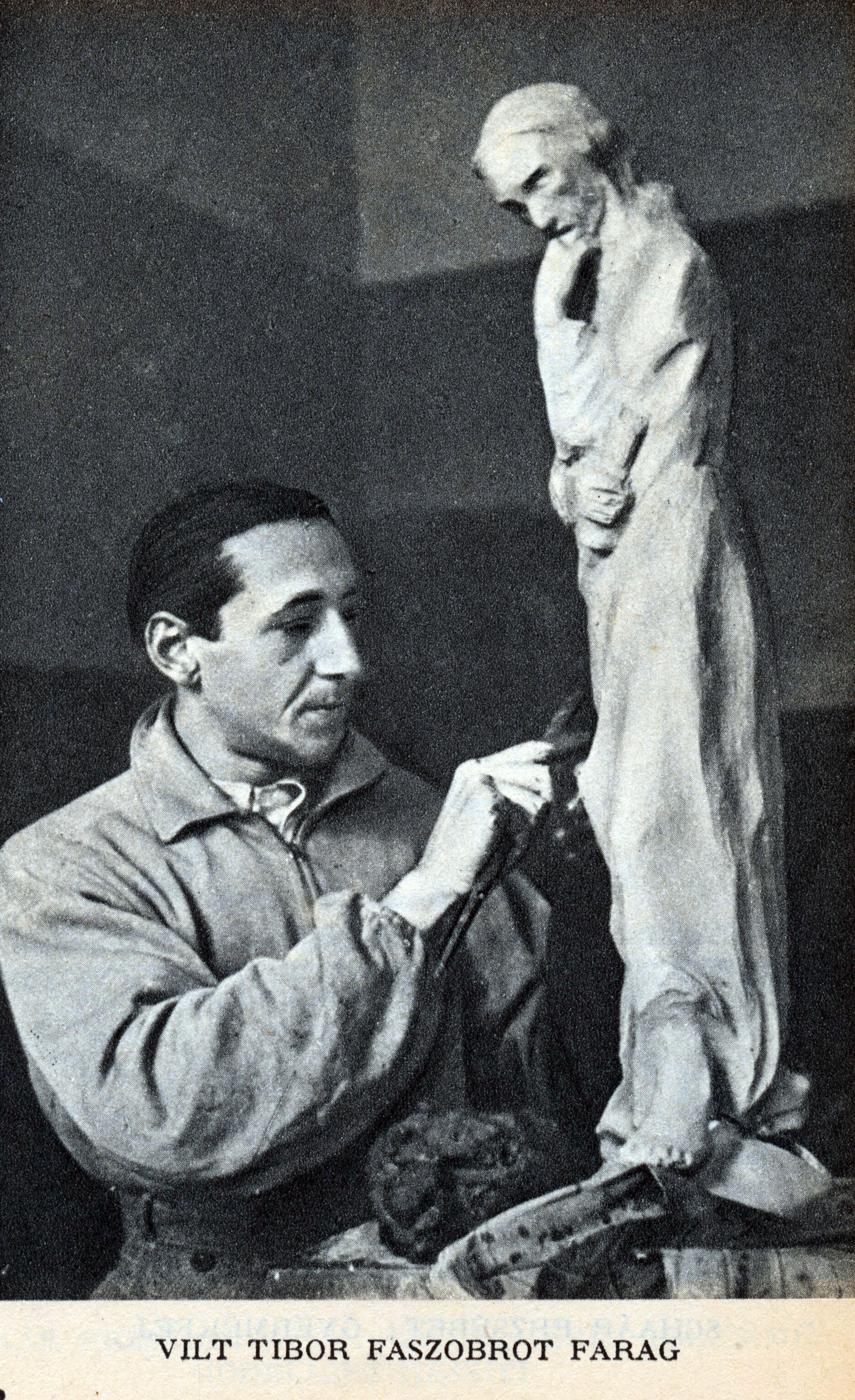 Tibor Vilt Hungarian sculptor - during sculptures